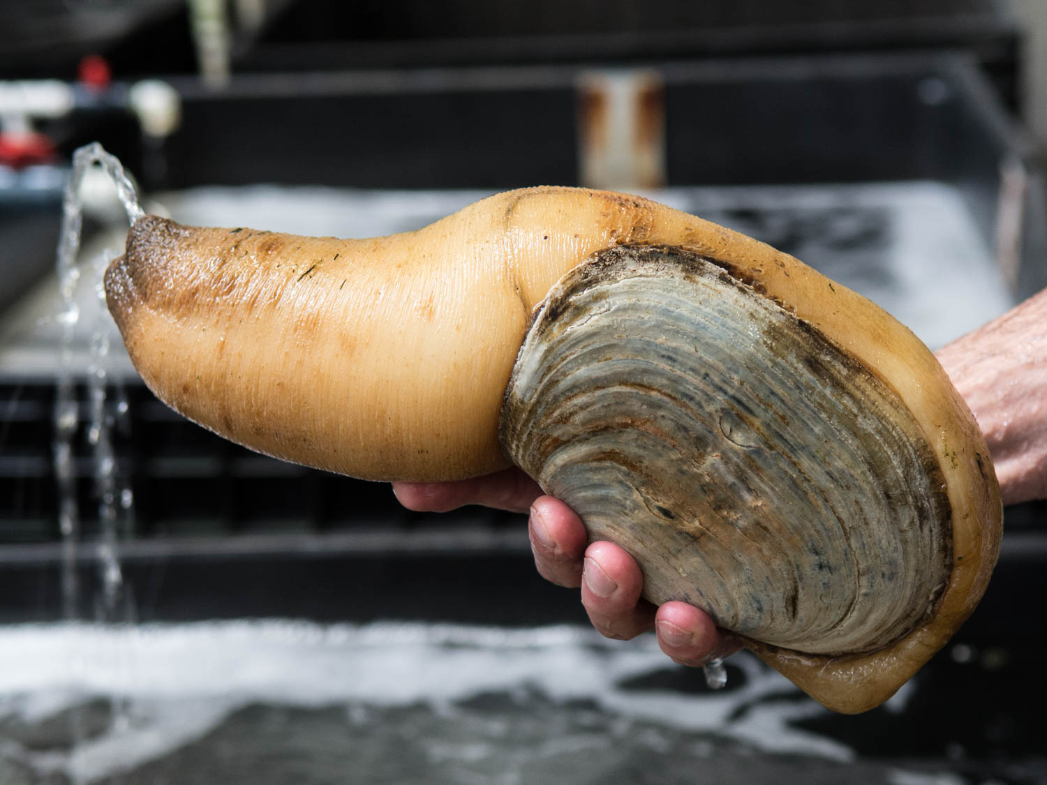 Geoduck